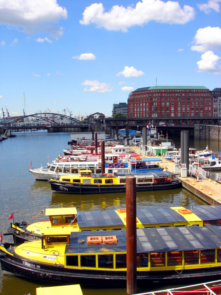 Hafenrundfahrt Barkassen Hamburg Elbe